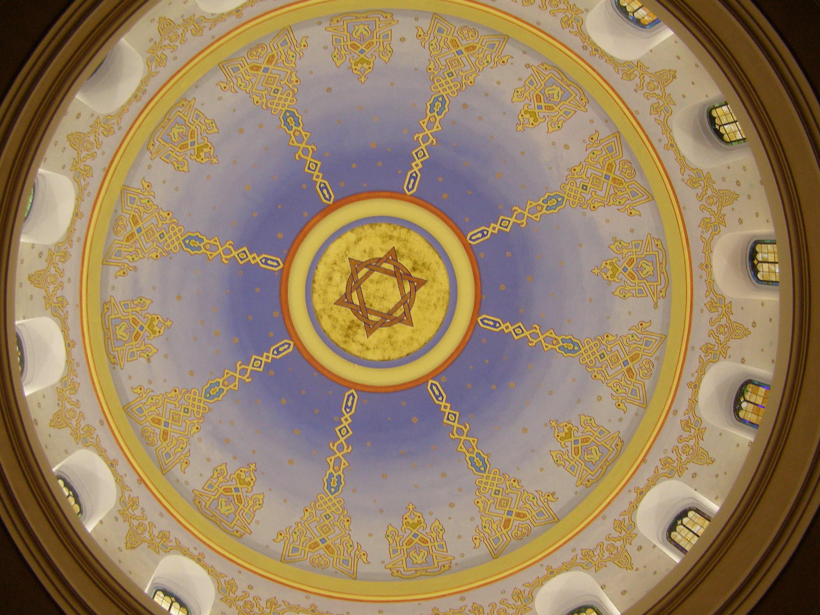 A picture of the inside of the dome on the sixth and I snagogue.